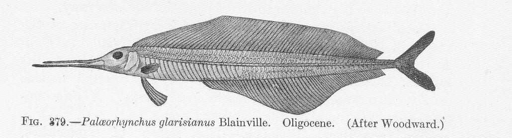 Palaeorhynchus glarissianus Blainville. Oligocene Subject: Osteichthyes Tag: Fish